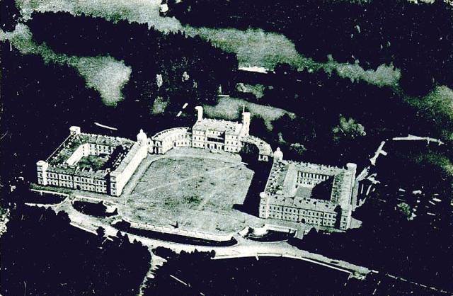 Gatchina. Aerial view of the Gatchina Palace